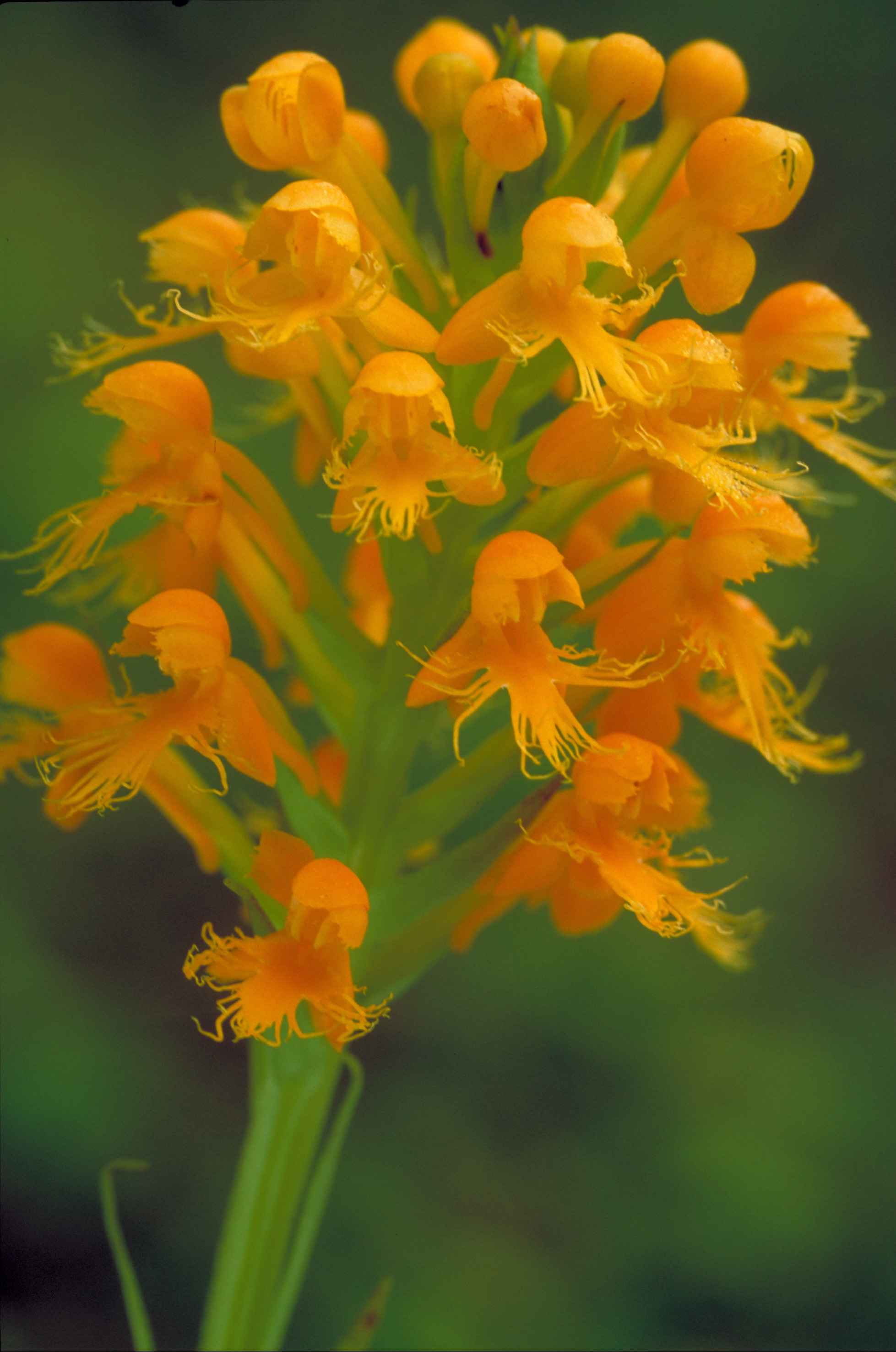 Image title: Close up of orange yellow orchid blossoms yellow crested orchid platanthera cristata Image from Public domain images website